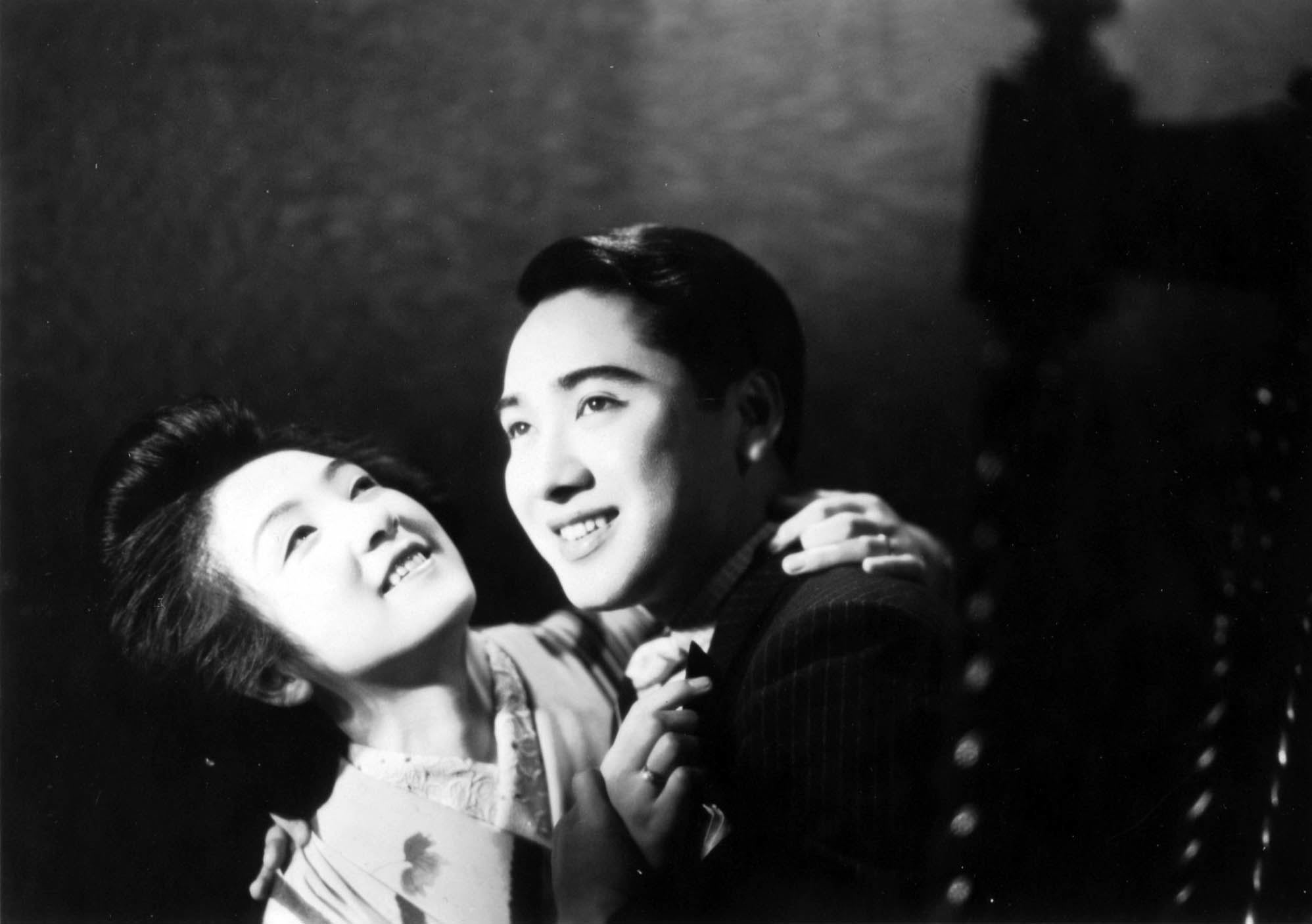 Hiroko Kawasaki and Kazuo Hasegawa (as Chōjirō Hayashi) in Hanamuko no negoto (花婿の寝言) directed by Heinosuke Gosho - 1935